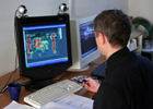 evaluation of eyetracking after an usability test